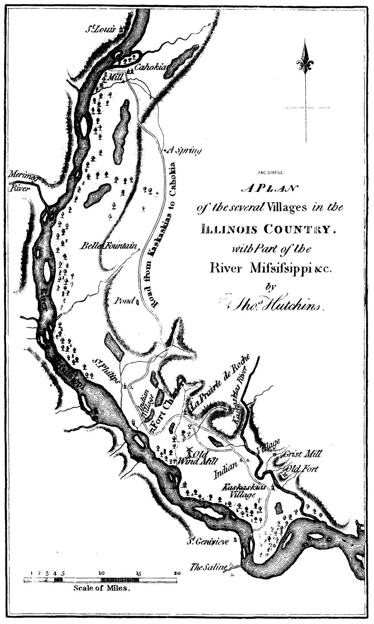 Map of the Several Villages in the Illinois Country with Part of the River Mississippi &c. (facsimile) by Thomas Hutchins. Printed in Parkman, Francis. The Conspiracy of Pontiac and the Indian War after the Conquest of Canada, Vol. I, 1851. 6th ed., 1870. Project Gutenberg, 2012.